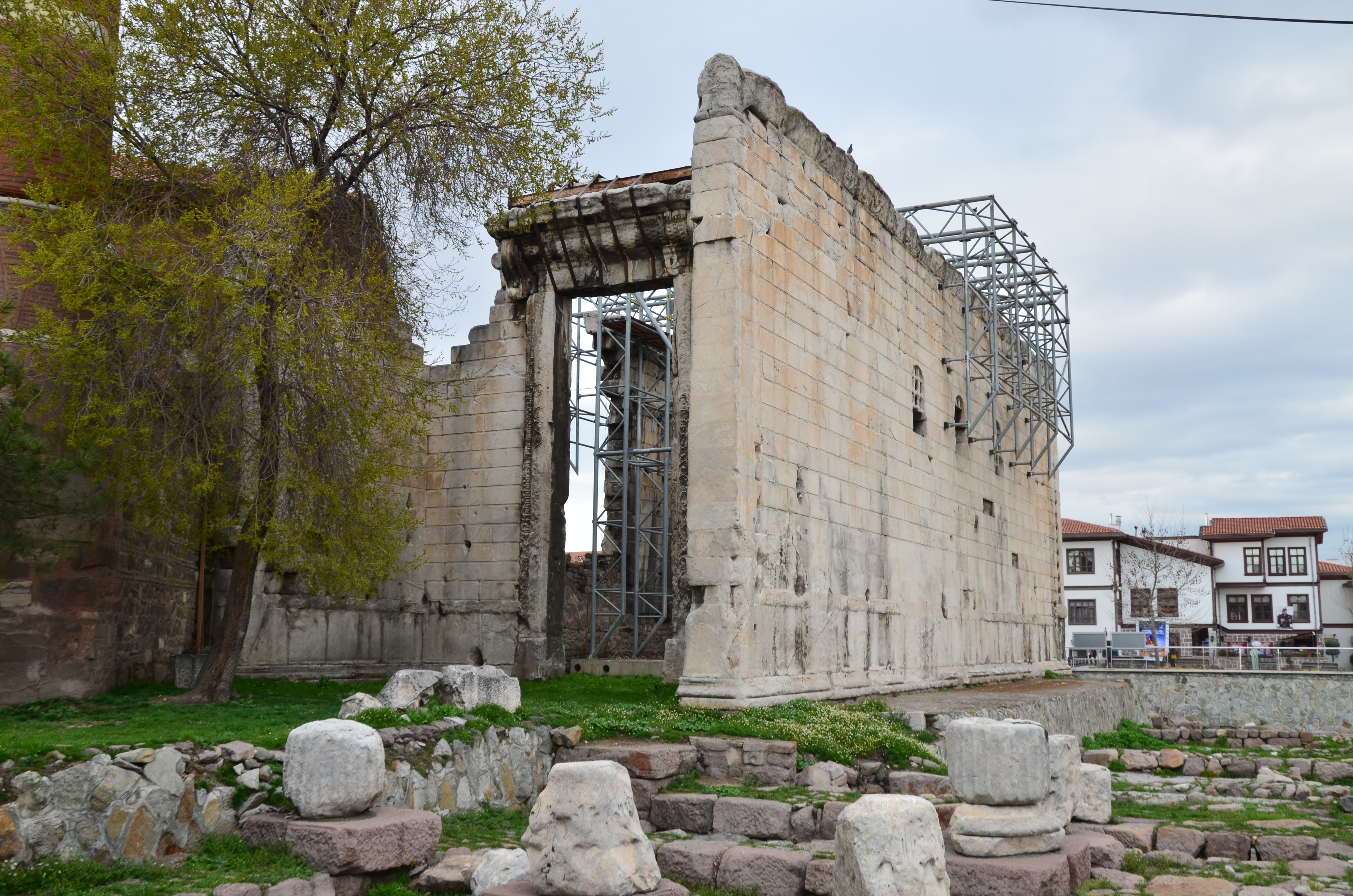 The Temple of Augustus and Rome with the Res Gestae Divi Augusti ("Deeds of the Divine Augustus") inscribed on the walls of the cella, Ancyra, Ankara (Turkey)